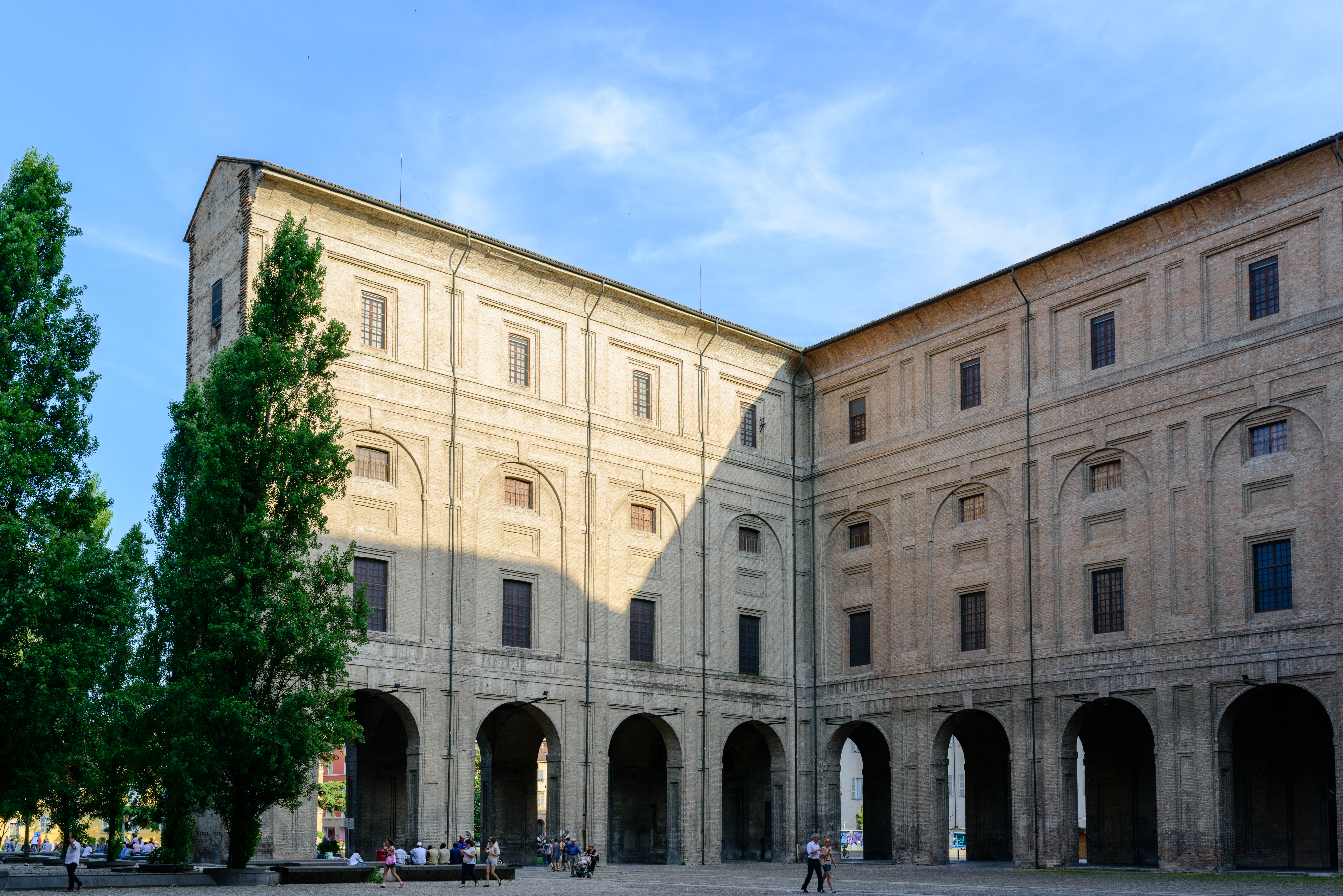 Palazzo della Pilotta, Parma, Emilia-Romagna, Italy.